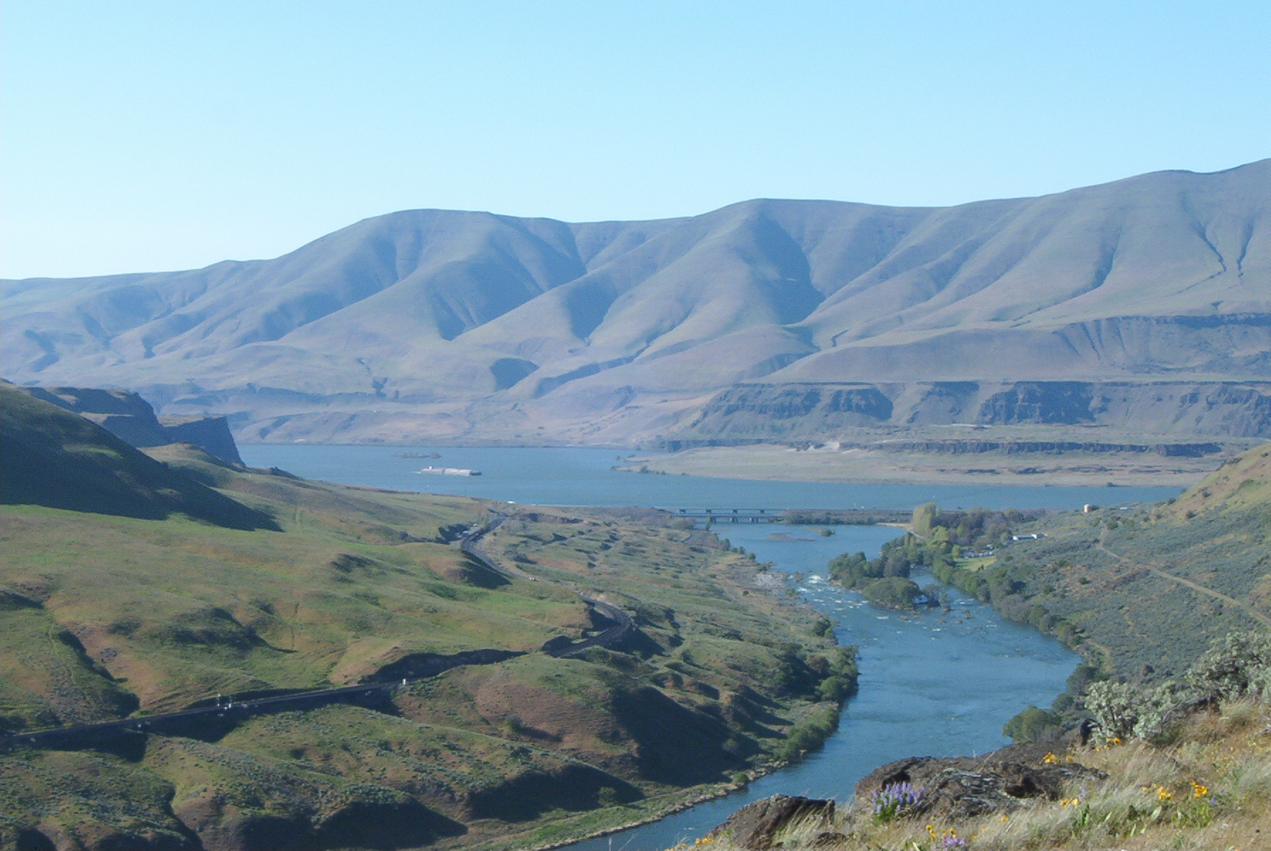 View of the Columbia and Deschutes rivers, the Columbia River Gorge, and Deschutes River State Recreation Area. The state of Oregon, United States, is the main part of the photo, with Washington on the far side of the Columbia in the background. Taken from the Ferry Springs Trail in the recreation area, looking generally northwest.